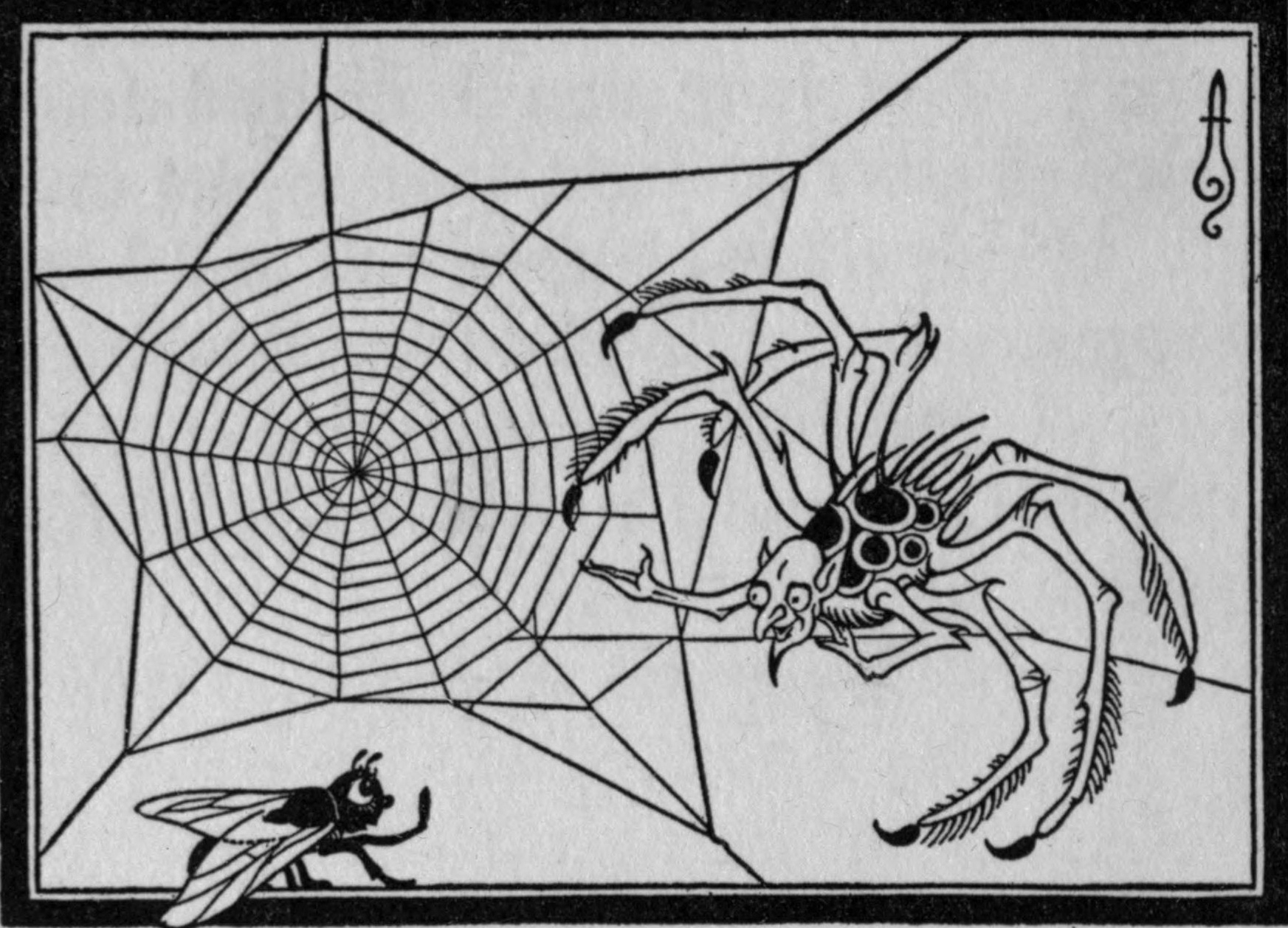 Illustration by Boris Artzybasheff from by Dmitry Mamin-Sibiryak